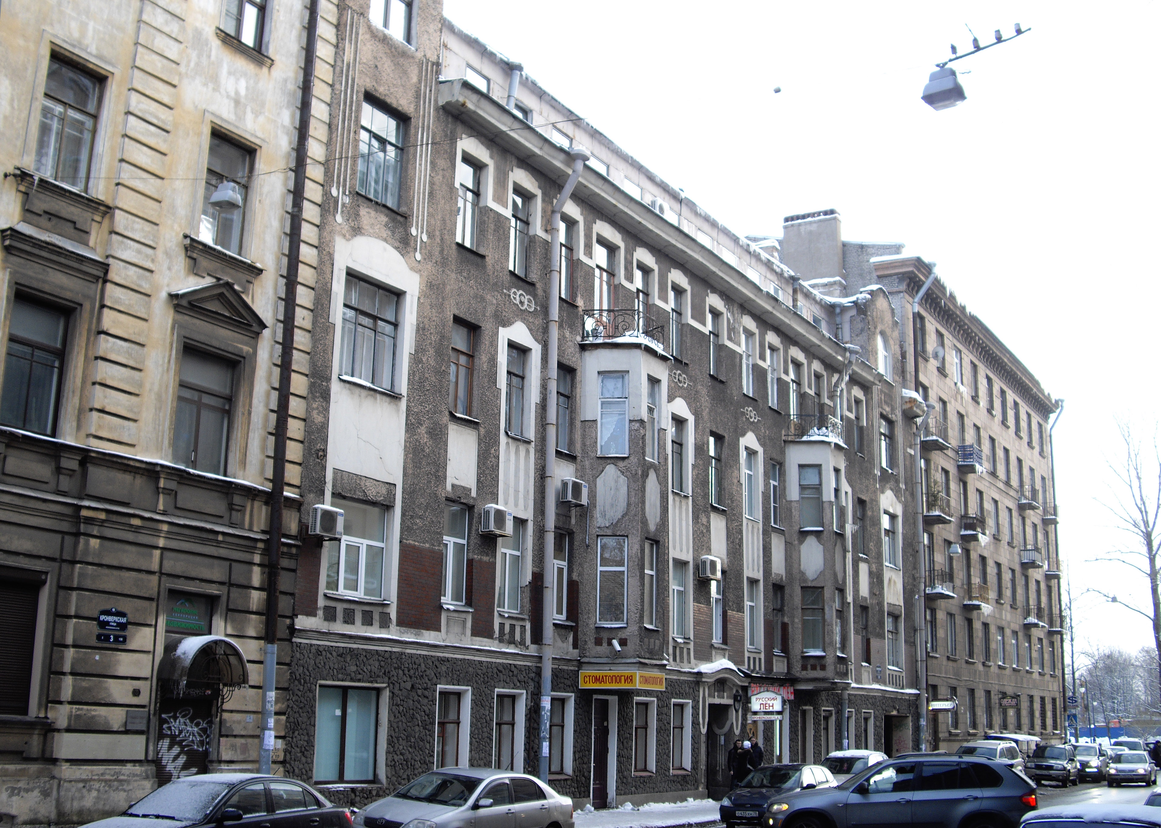 1/39, Kronverkskaya Street, corner of Kronverksiy Prospekt (Saint Petersburg, Russia).